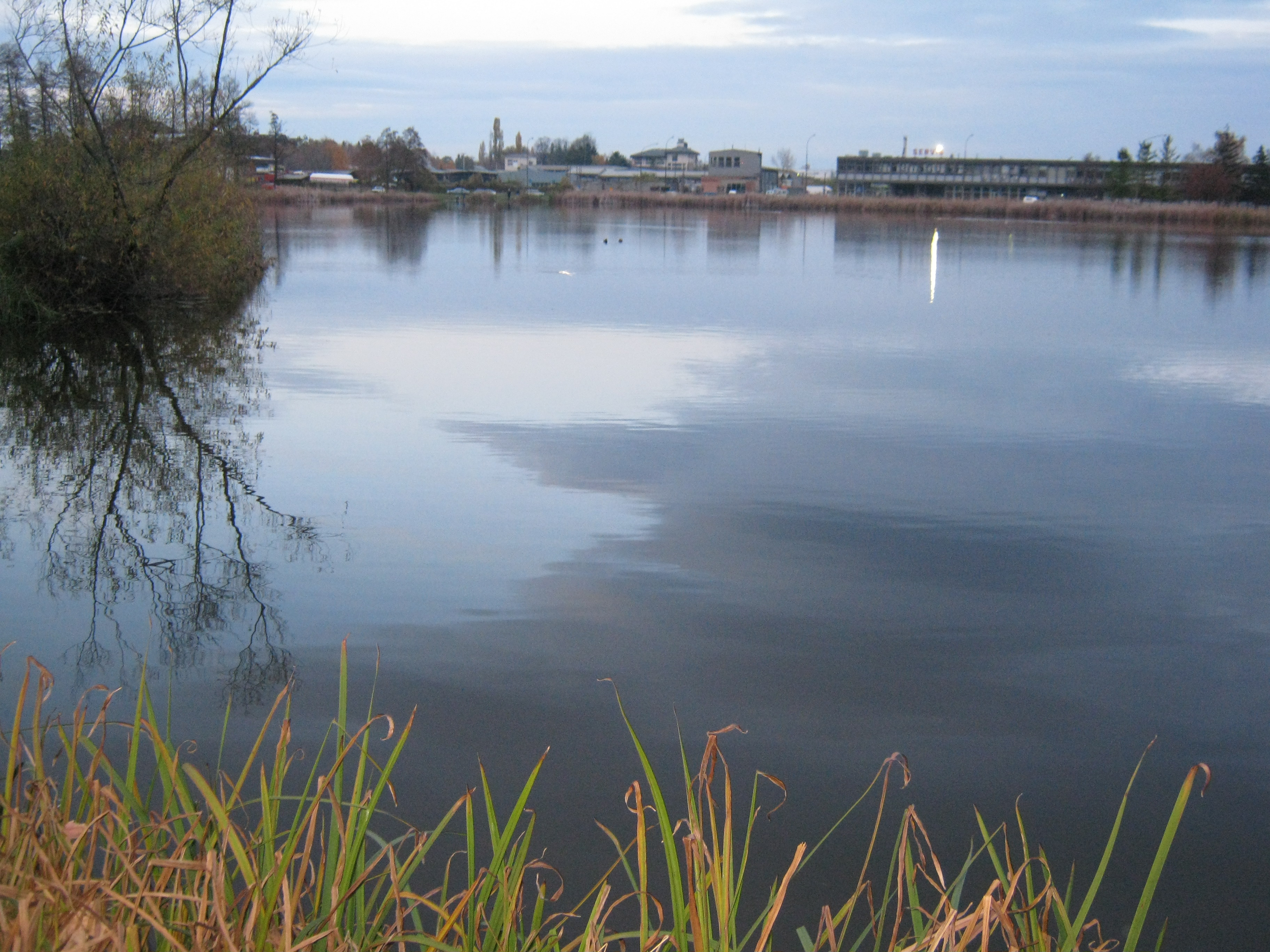 Lake Bubanj in Kragujevac